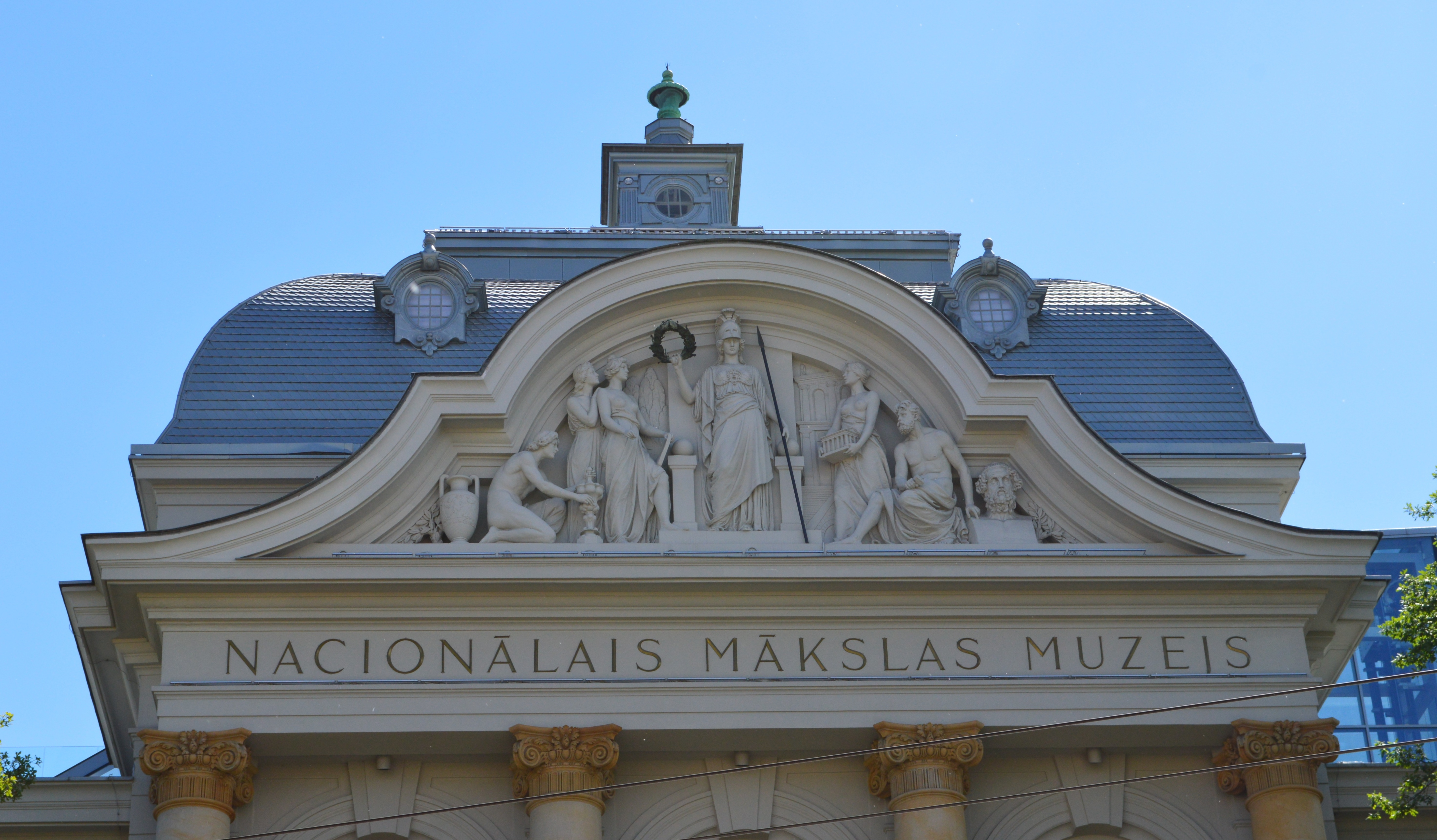 Latvia, officially the 'Republic of Latvia', is a country in the Baltic region of Northern Europe. Since its independence, Latvia has been referred to as one of the ‘Baltic states’. After centuries of Swedish, Polish-Lithuanian and Russian rule, a rule mainly executed by the Baltic German aristocracy, the Republic of Latvia was established on 18 November 1918 when it broke away and declared independence in the aftermath of World War I. However, by the 1930s the country became increasingly autocratic after the coup in 1934 establishing an authoritarian regime under Kārlis Ulmanis. The country's 'de facto' independence was interrupted at the outset of World War II, beginning with Latvia's forced incorporation into the Soviet Union, followed by the invasion and occupation by Nazi Germany in 1941, and the re-occupation by the Soviets in 1944 (Courland Pocket in 1945) to form the Latvian SSR for the next 45 years. The peaceful Singing Revolution, starting in 1987, called for Baltic emancipation from Soviet rule and condemning the Communist regime's illegal takeover. It ended with the Declaration on the Restoration of Independence of the Republic of Latvia on 4 May 1990, and restoring 'de facto' independence on 21 August 1991. Latvia’s capital and largest city is Riga which was founded in 1201 and is a former Hanseatic League member. Riga's historical centre is a UNESCO World Heritage Site, noted for its Art Nouveau/Jugendstil architecture and nineteenth century wooden buildings. The Scotch Mist Gallery contains many photographs of historic buildings, monuments and memorials of Poland and countries that previously comprised the Polish-Lithuanian Commonwealth.